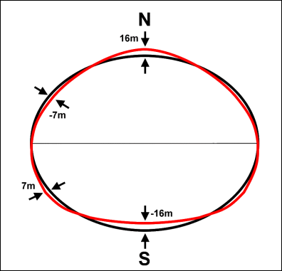 Geoid, mean deviation from ellipsoid, averaged by rotation around N/S axis. Related pictures: image:geoundaequrp.png,image:Geoundnsrp.png,Image:Geoids_sm.jpg Own drawing based on several hints about magnitude of deviation (earth resembles to a pear).